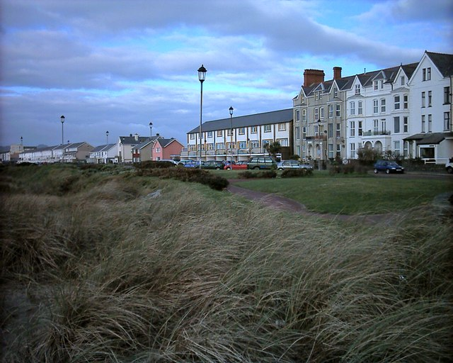 Promenâd Pwllheli Promenade The Eastern end of Marian y Mor - West End. Sand dunes separate the prom from the beach